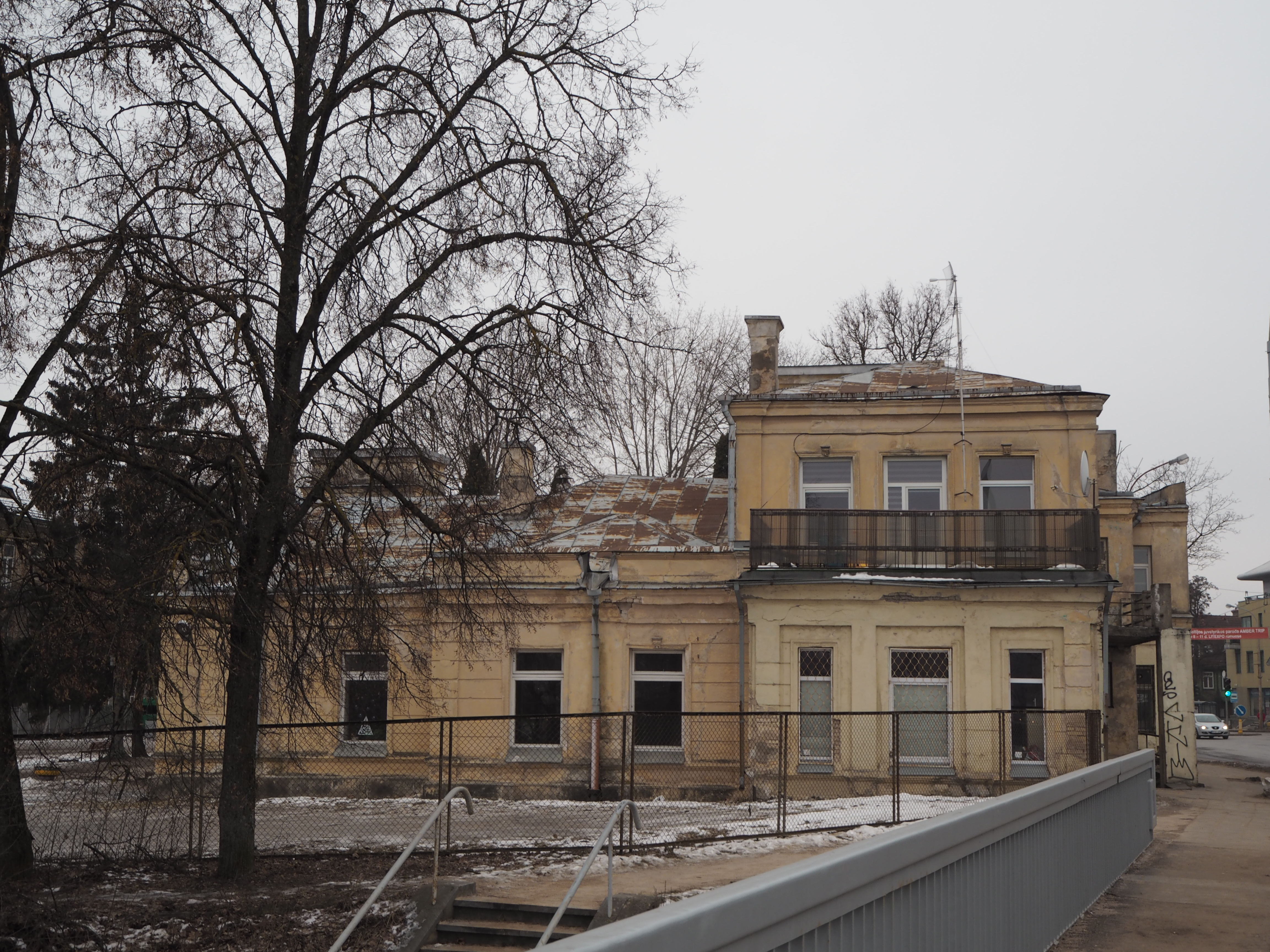 Building of former "Polskie Radio" in Žvėrynas, Vilnius